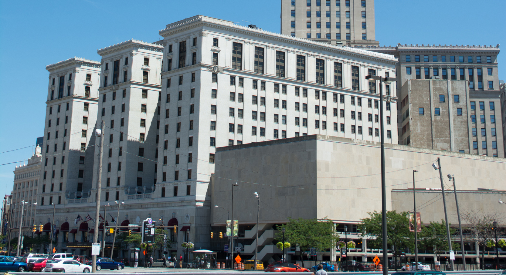 Renaissance Cleveland Hotel with Terminal Tower in the background